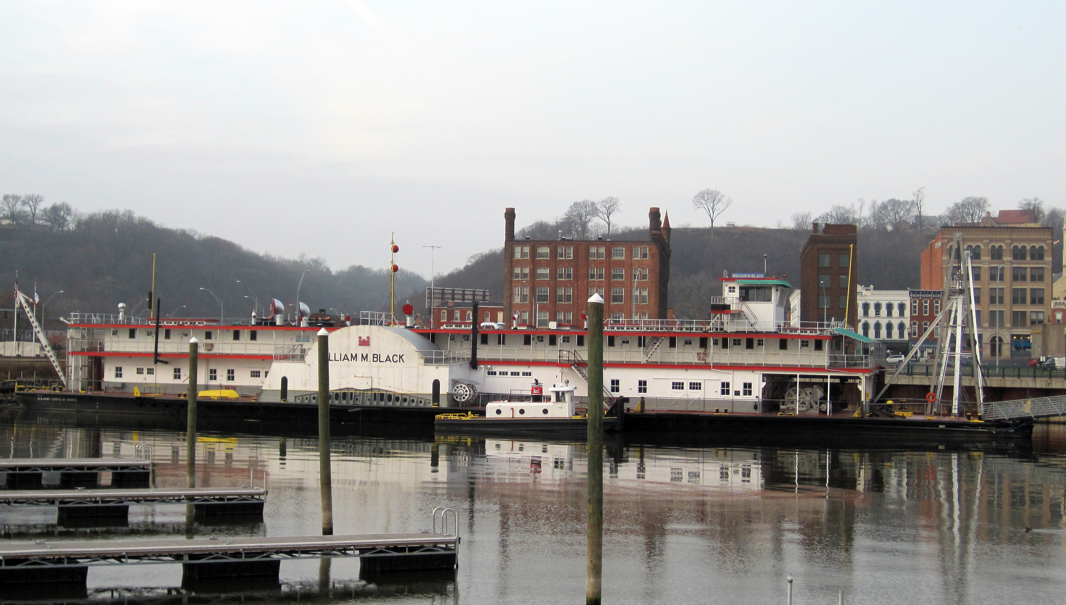 The William M. Black (dredge), a National Historic Landmark in Dubuque, Iowa. Bill Whittaker (talk) 16:23, 21 November 2009 (UTC)